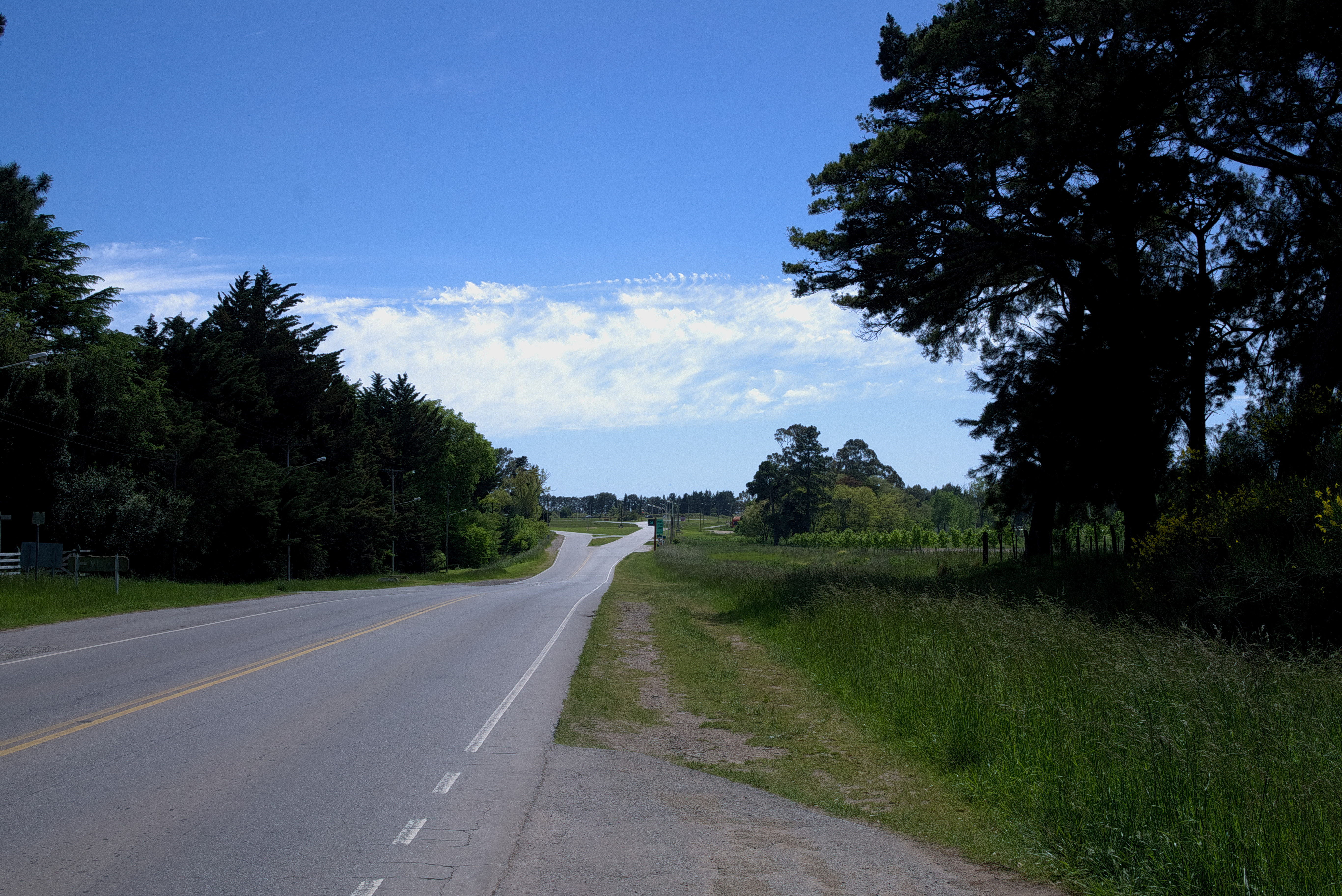 Provincial Route 30 near Granja school, Tandil, Argentina